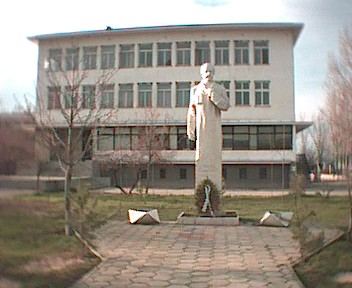 Rakovski Monument, Rakovski